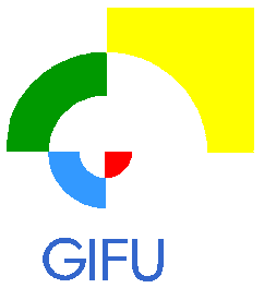 This is the symbol mark (not emblem) of Gifu prefecture. Published to November 22, 1991.